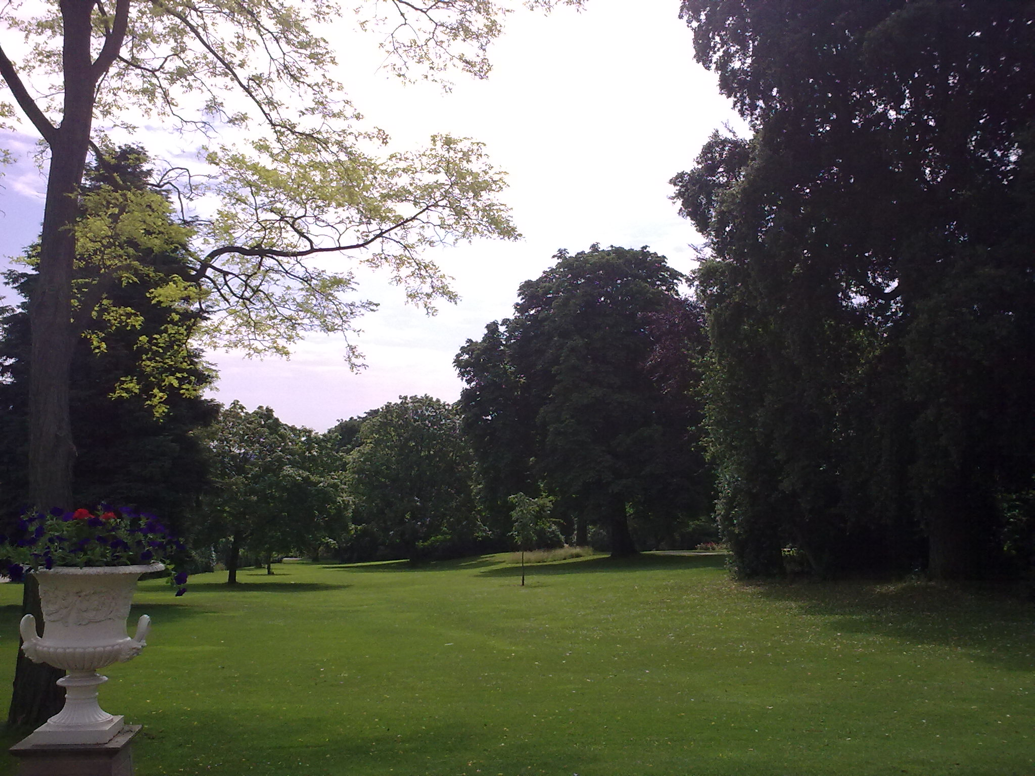 Botanical Gardens, Sheffield, England